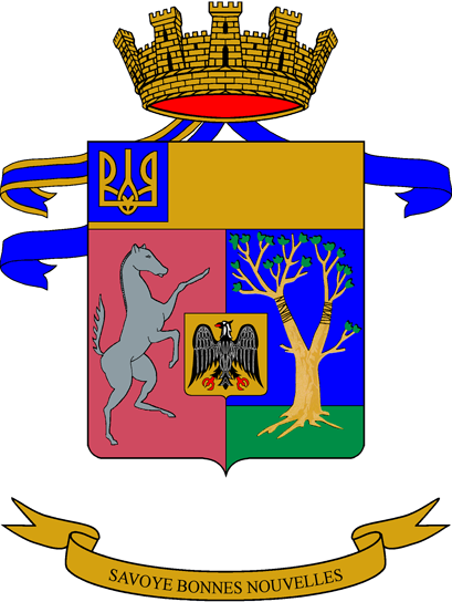 Coat of Arms of the 3° Cavalry Regiment; Italian Army.